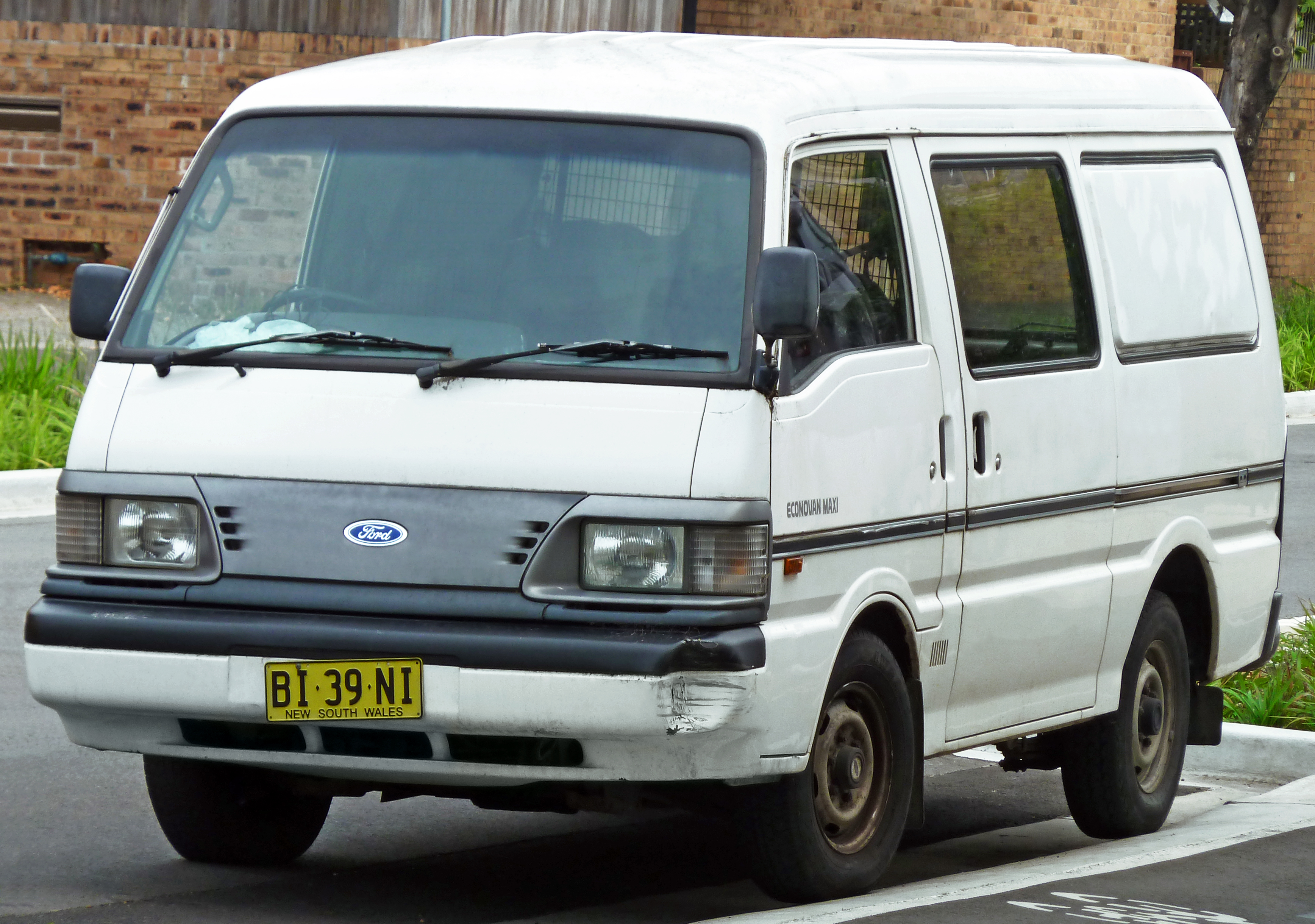 1997–1999 Ford Econovan (JG) Maxi MWB van. Photographed in Woolloomooloo, New South Wales, Australia.